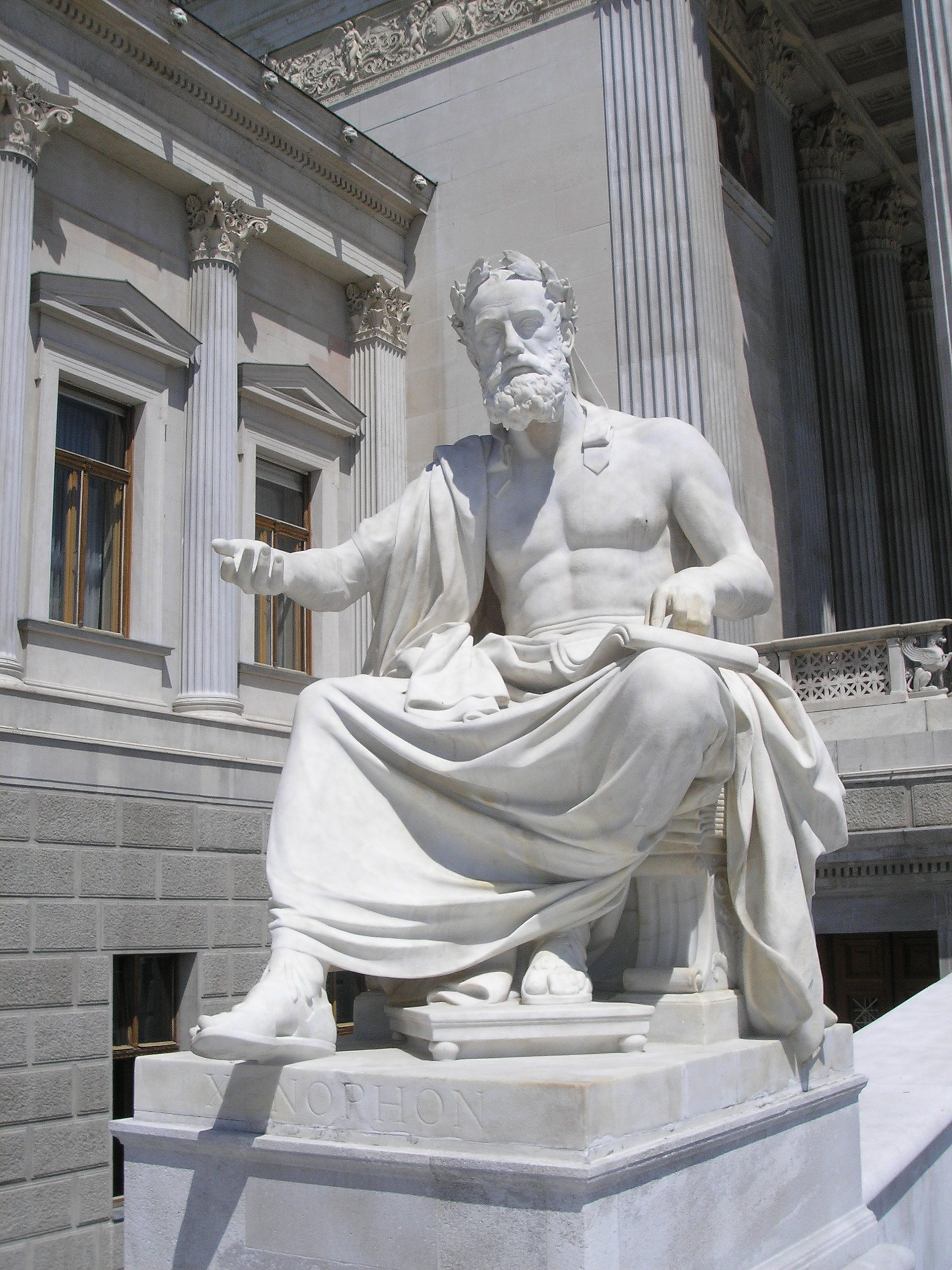 Austria, Vienna, Austrian Parliament Building